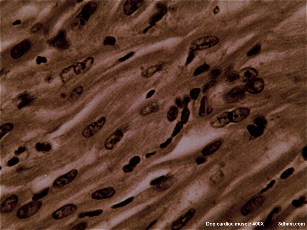 Dog Caridac Muscle